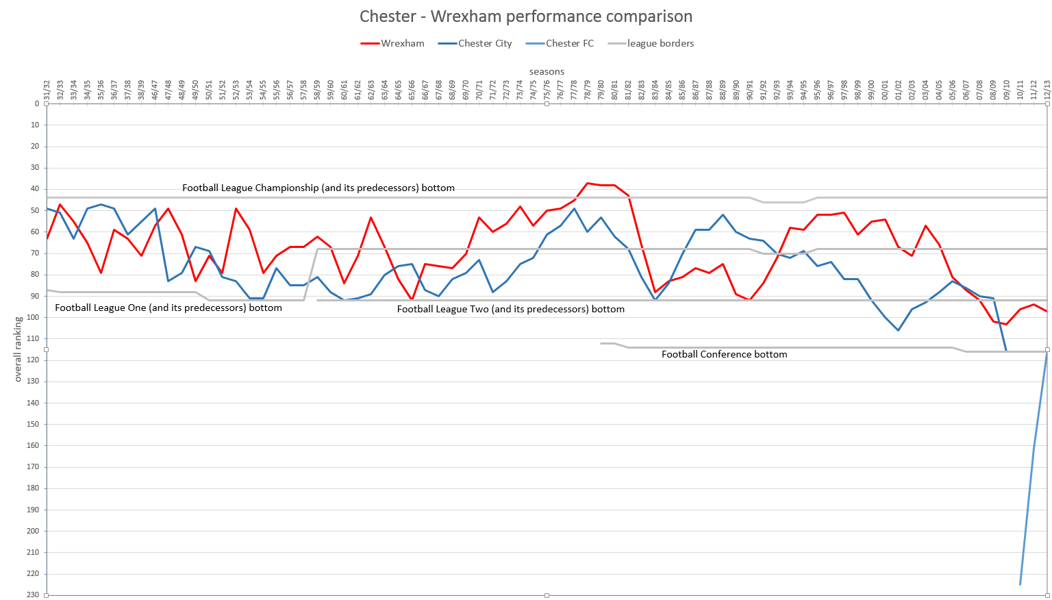 Chester - Wrexham performance comparison by final league standings in the system of English football leagues since Chester was elected in Football League in 1931